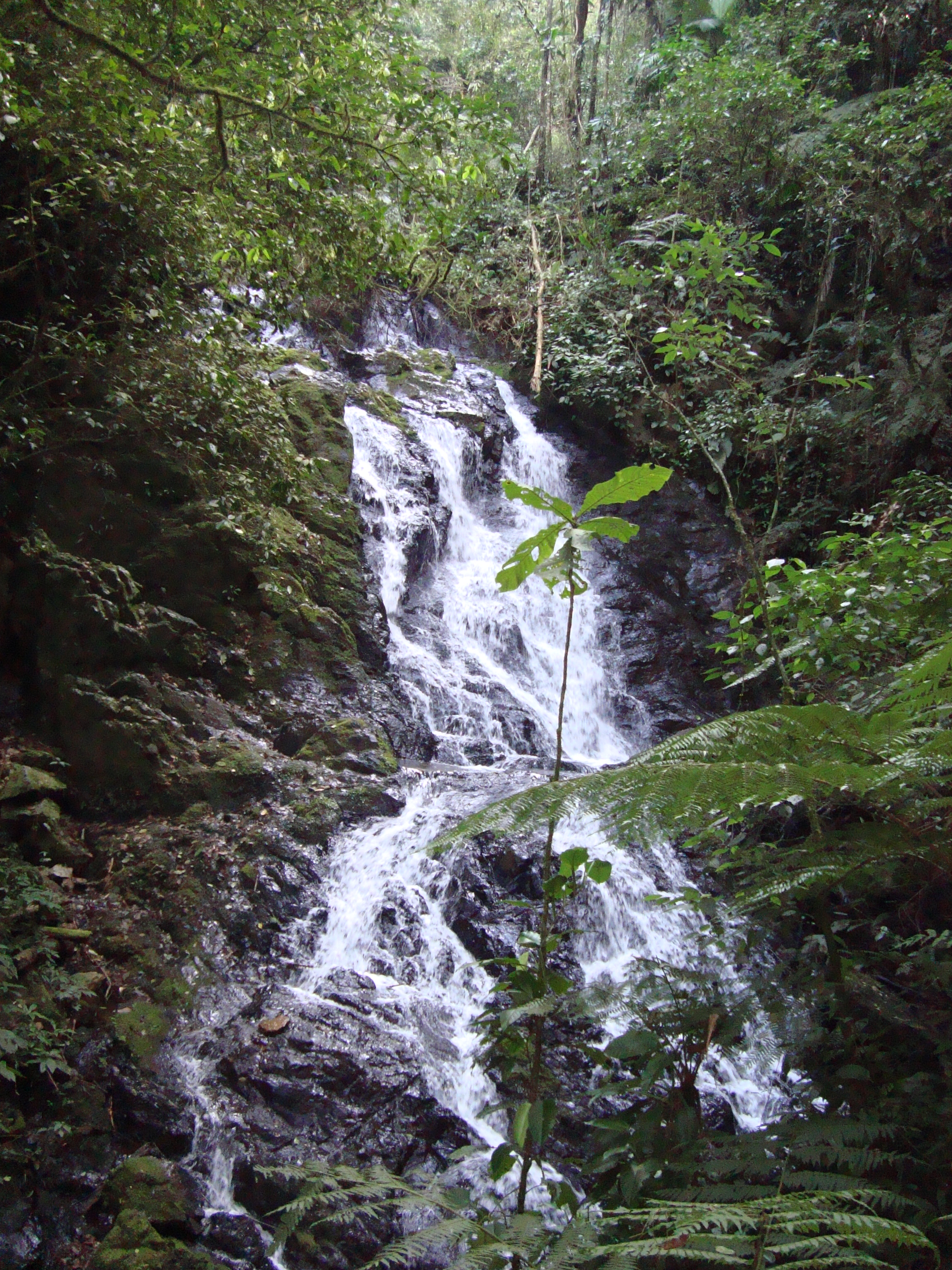 Cachoeira da Água Comprida